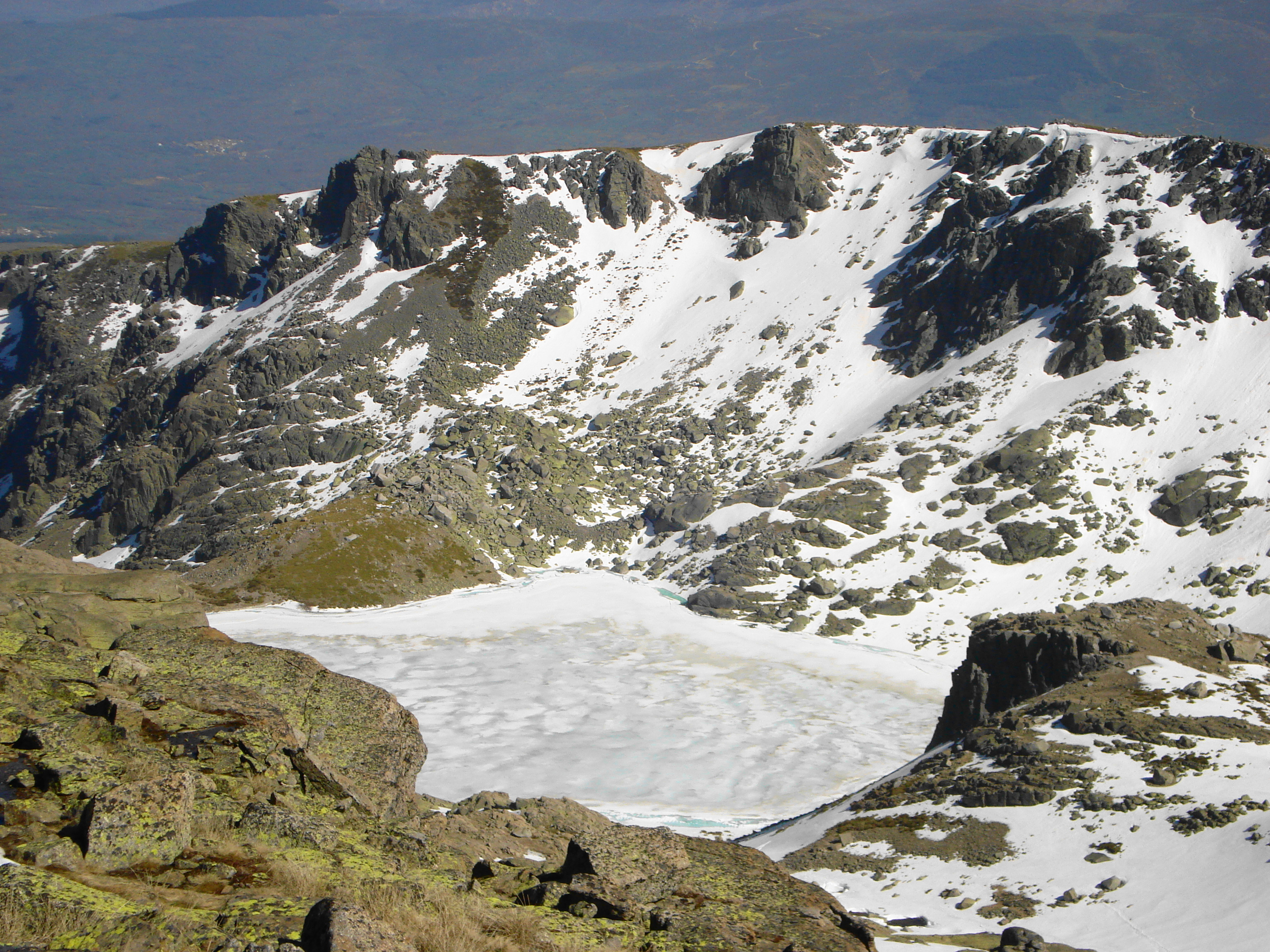 Bigger Trampal Lagoon